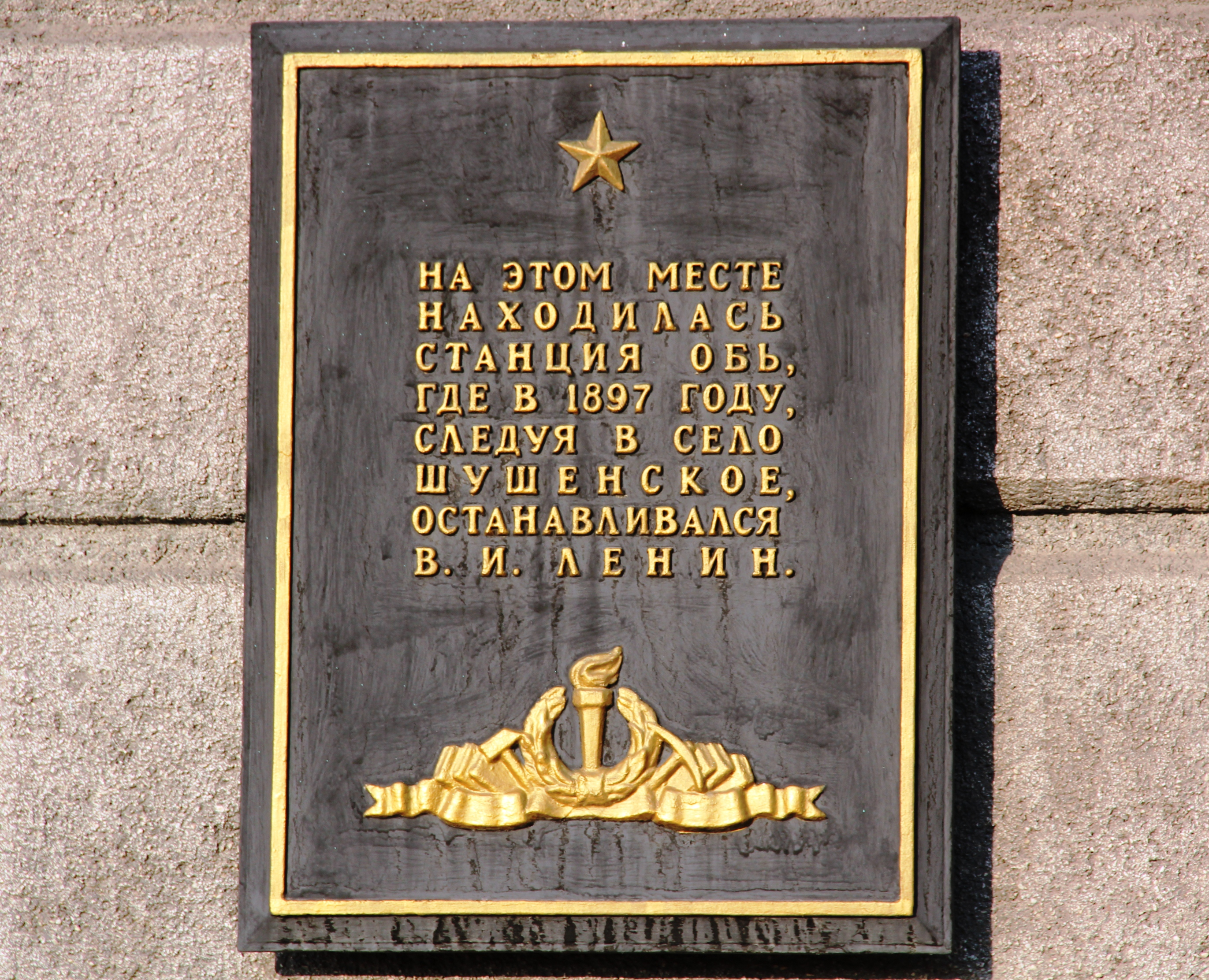 Plate at Main Station Novosibirsk about Ob-Station and Lenin'S visit